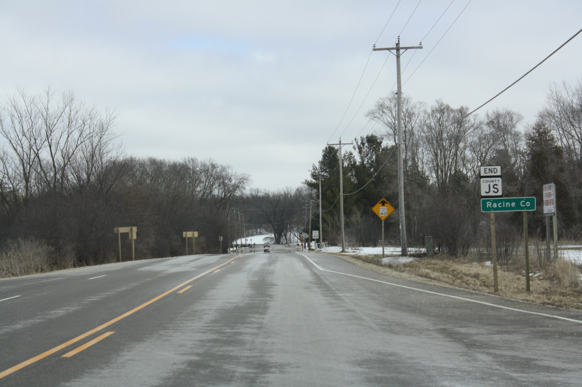 The county sign for Racine County, Wisconsin on Wisconsin Highway 11.